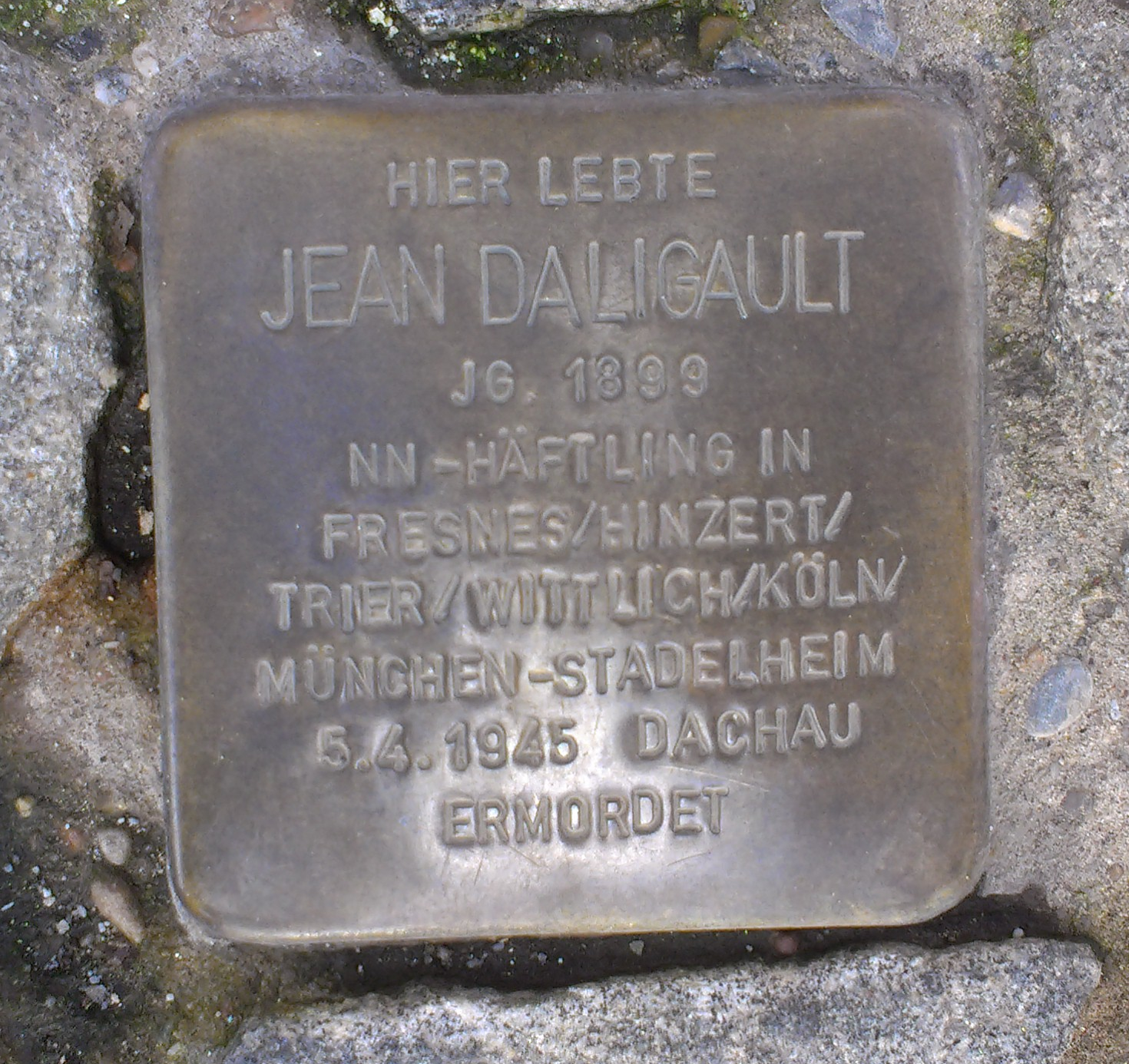 Jean Daligault stolpersteine in Windstraße 6-8, Trier, Germany